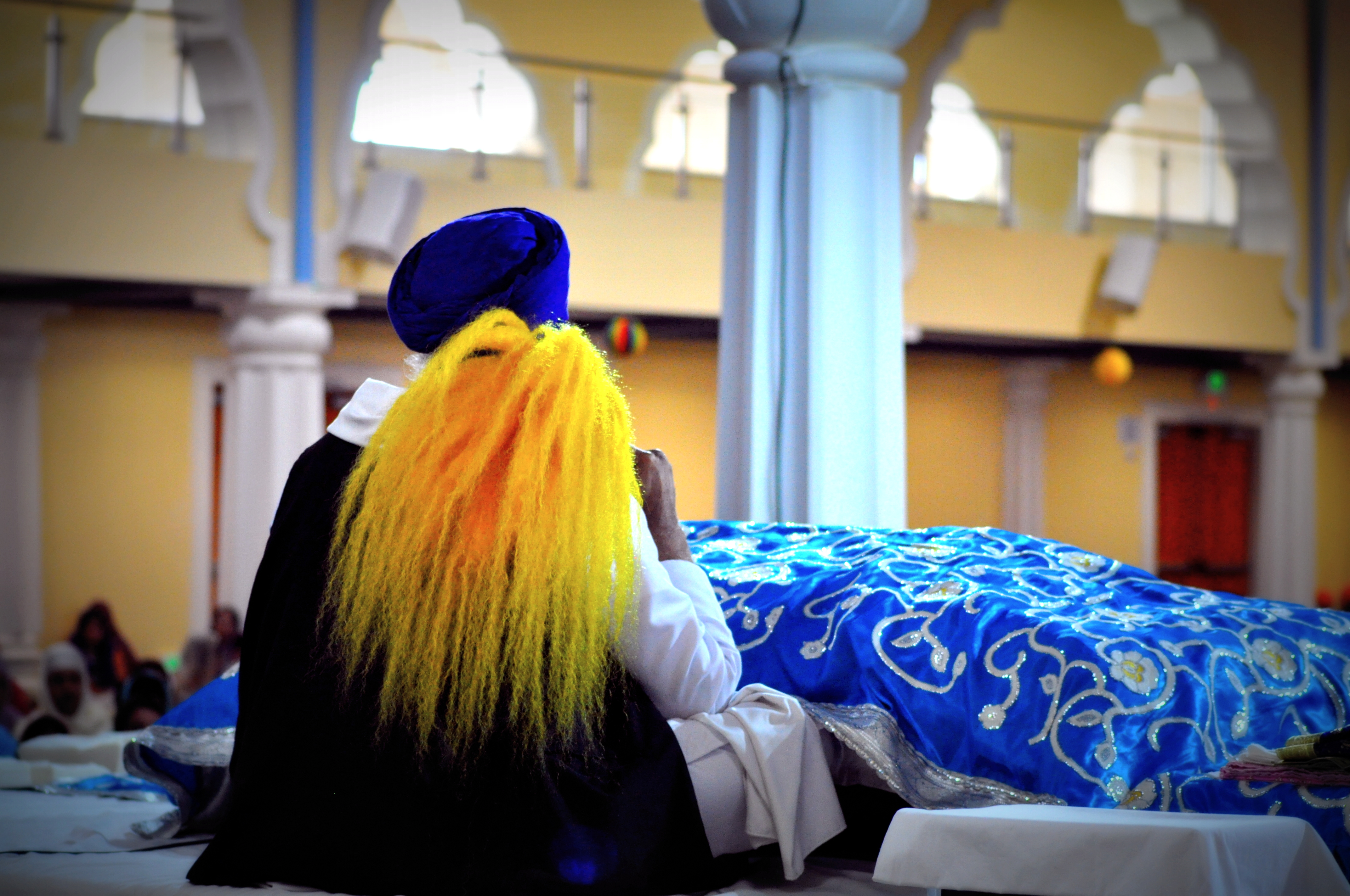 The scripture is covered under the blue cloth, while a Sikh ritually waves a orange chauri over the text. The chauri waving is also done when the Guru Granth Sahib is being read, by a Granthi (the appointed reader of the scripture), by a person who waves the special fan, called chauri, over the pages. It is a mark of respect. The chauri is a fan with handle made of wood or metal. The rest is made of animal hair or nylon.